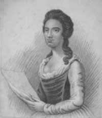 Anne Dutton (1692-1765) was an English poet and Calvinist Baptist writer on religion